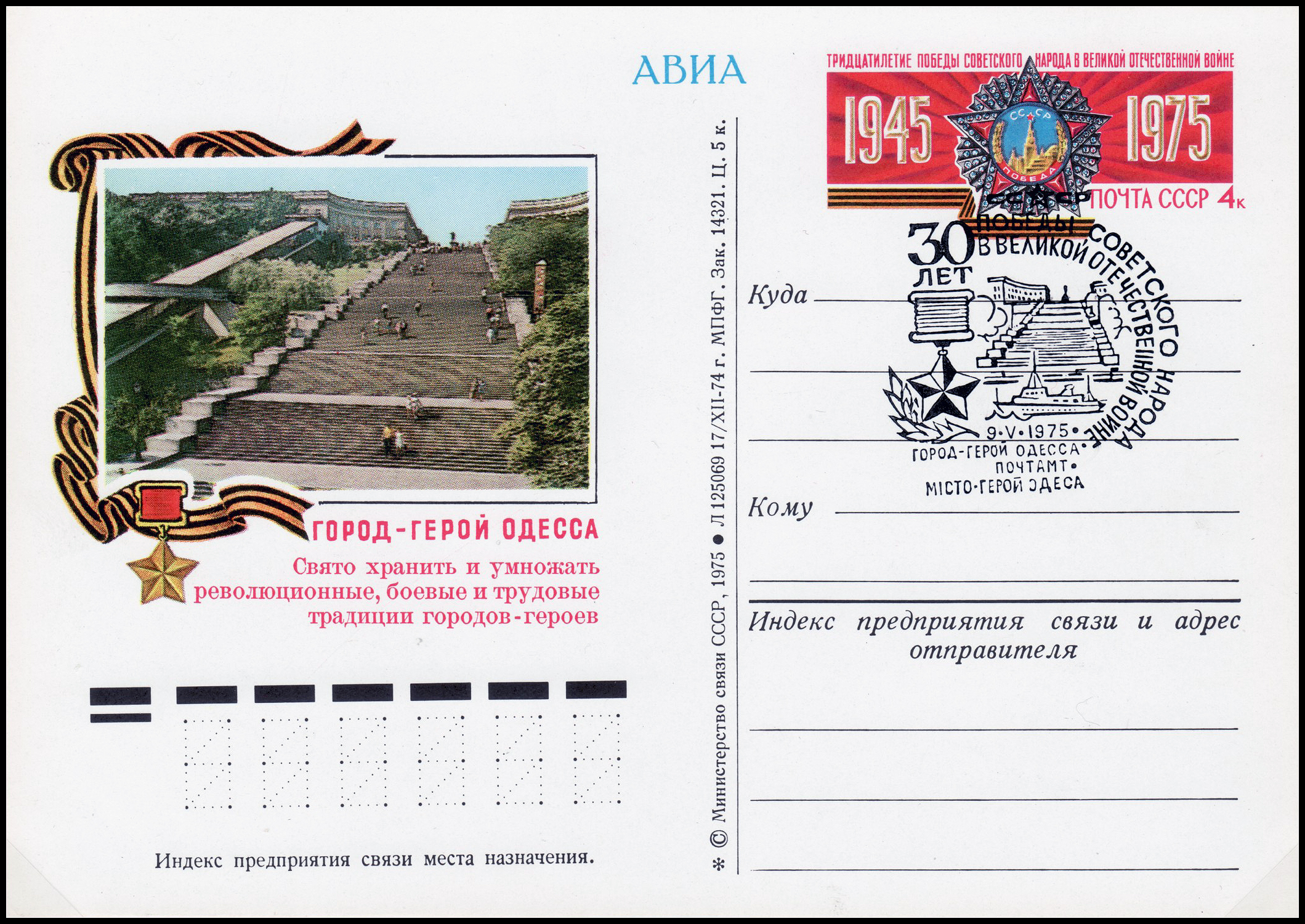 USSR, 1975. Postal card with commemorative stamp. Airmail. "30th anniversary of Victory in the Great Patriotic War. Hero City Odessa." From the series "Hero Cities of the USSR" (CPA Catalogue №26). Stamp: The Order of Victory; Guards ribbon. Illustration: Potemkin Stairs; medal "Gold Star", Guards ribbon. Painter I. Kozlov, Photo B. Gukkaev. Special cancellations: "30th anniversary of Victory in the Great Patriotic War. Hero City Odessa" 05/09/1975 Odessa, Central Post Office.